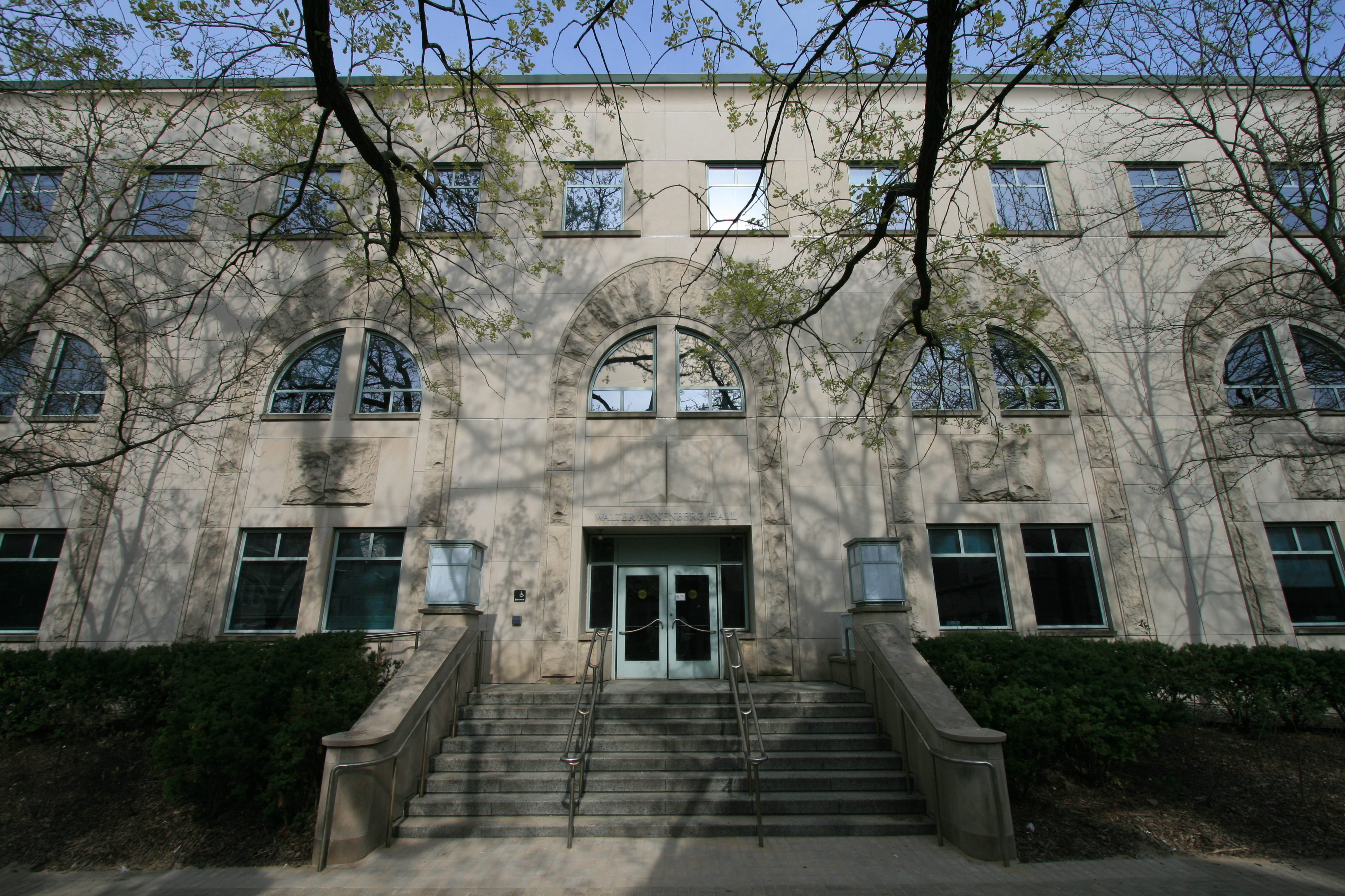 Annenberg Hall, Northwestern University